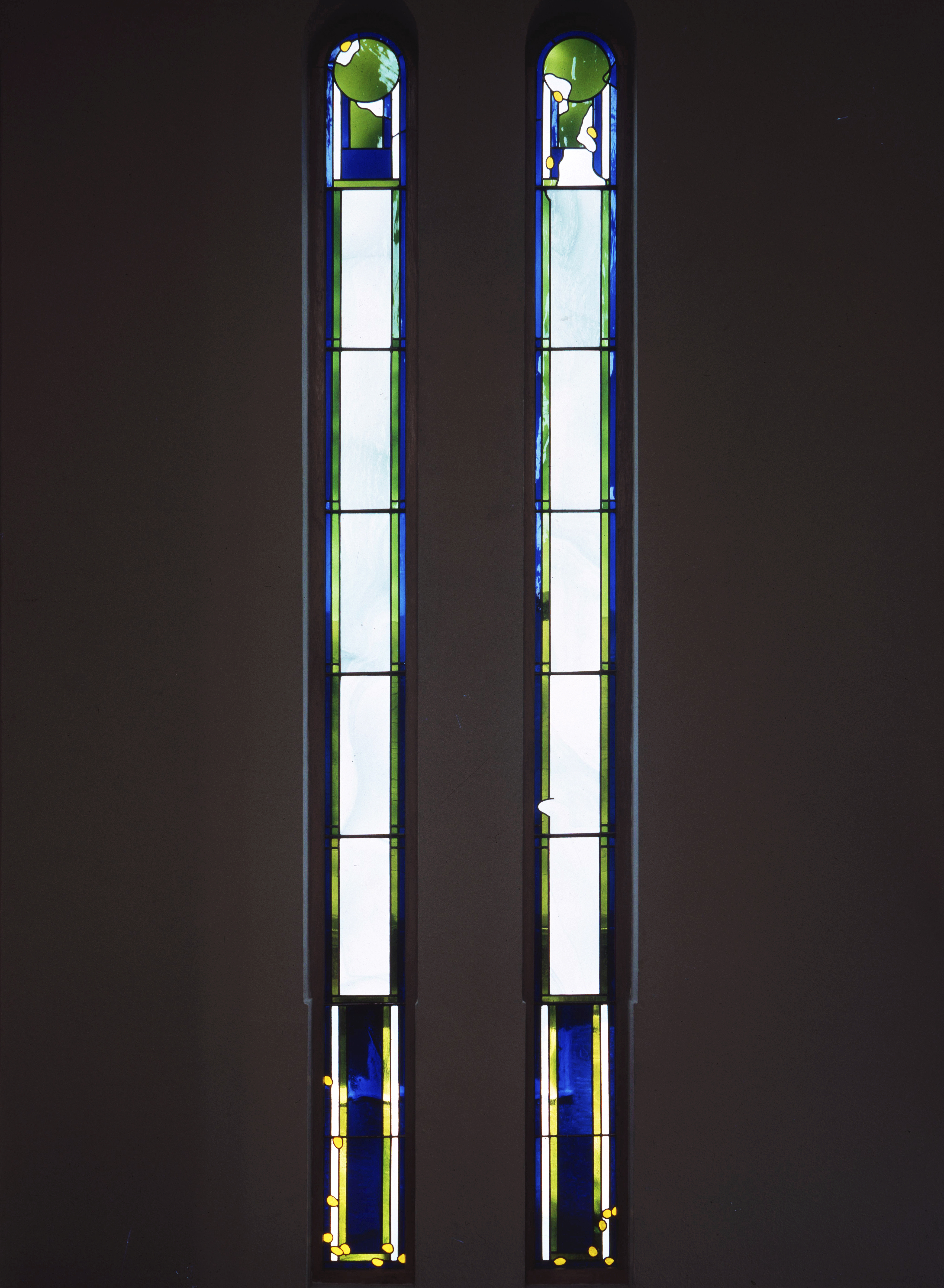 Two slender stained glass windows, 18ft x 1ft, designed and fabricated in 1977 by artist Brian Clarke for the baptistery of F. X. Velarde's 1932-1934 Art Deco church of St Gabriel's, Blackburn.